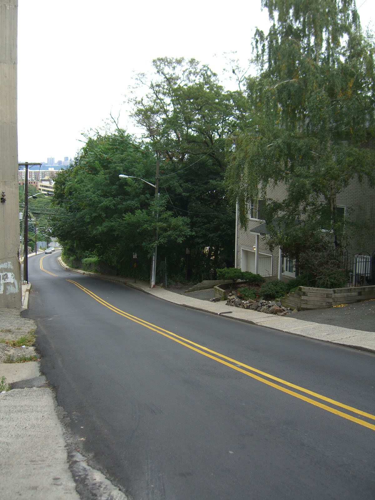 Bulls Ferry Road in North Bergen, New Jersey. Seen in the background is the skyline of Manhattan's Upper West Side.